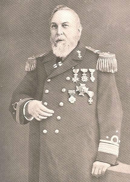 Viceadmiraal FAA Gregory